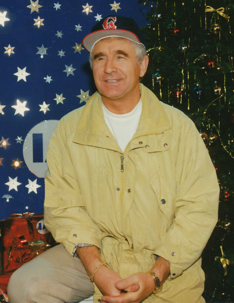 Frédéric Prinz von Anhalt at the Internationale Funkausstellung Berlin